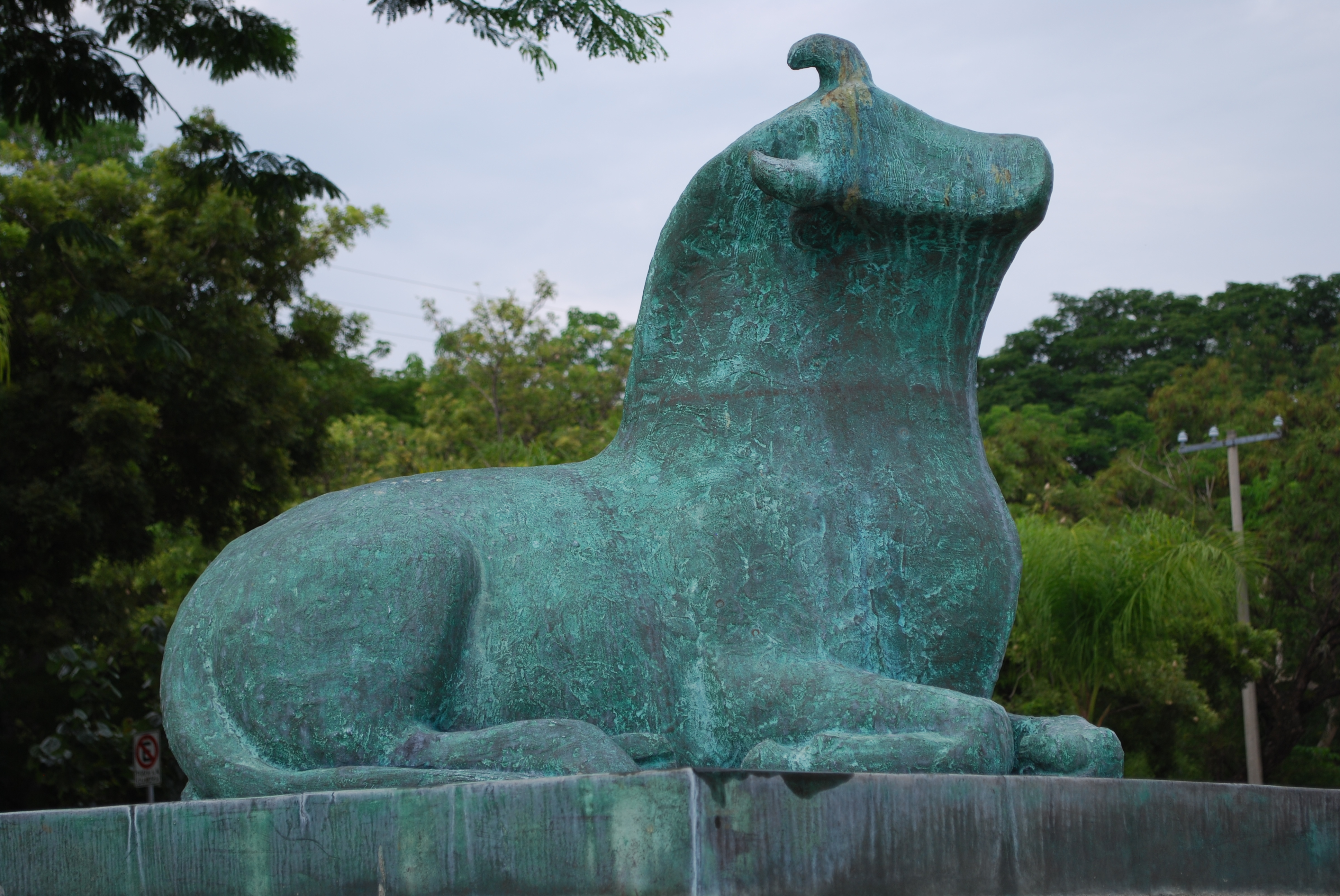 Sculpture "Toro" by Juan Soriano outside the Casa de Cultura of Colima Mexico